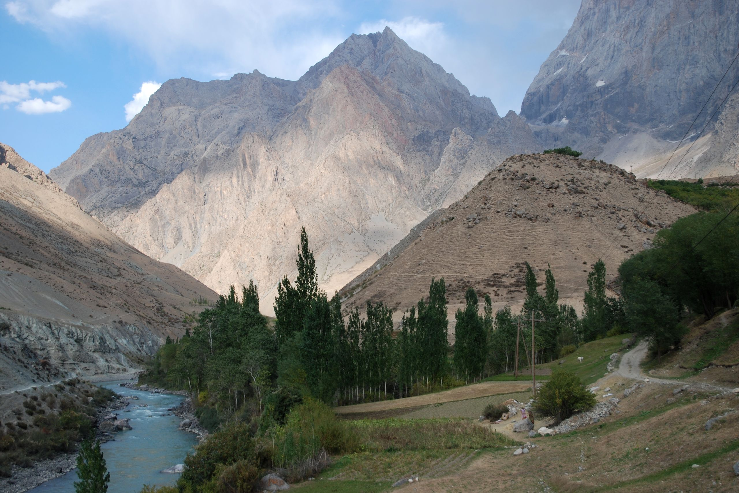 Yaghnob river near Margeb